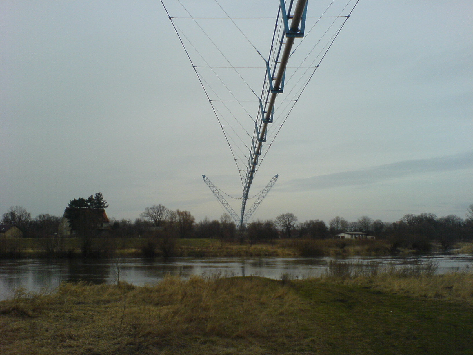 Wrocław, Siedlec, Oder River